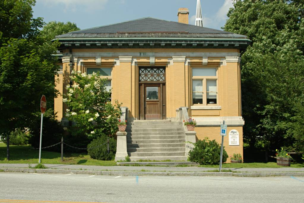 Town Offices - Waitsfield Vermont, USA Source: Photograph taken by M.S.Maguire Copyright: ©2006 M.S.Maguire